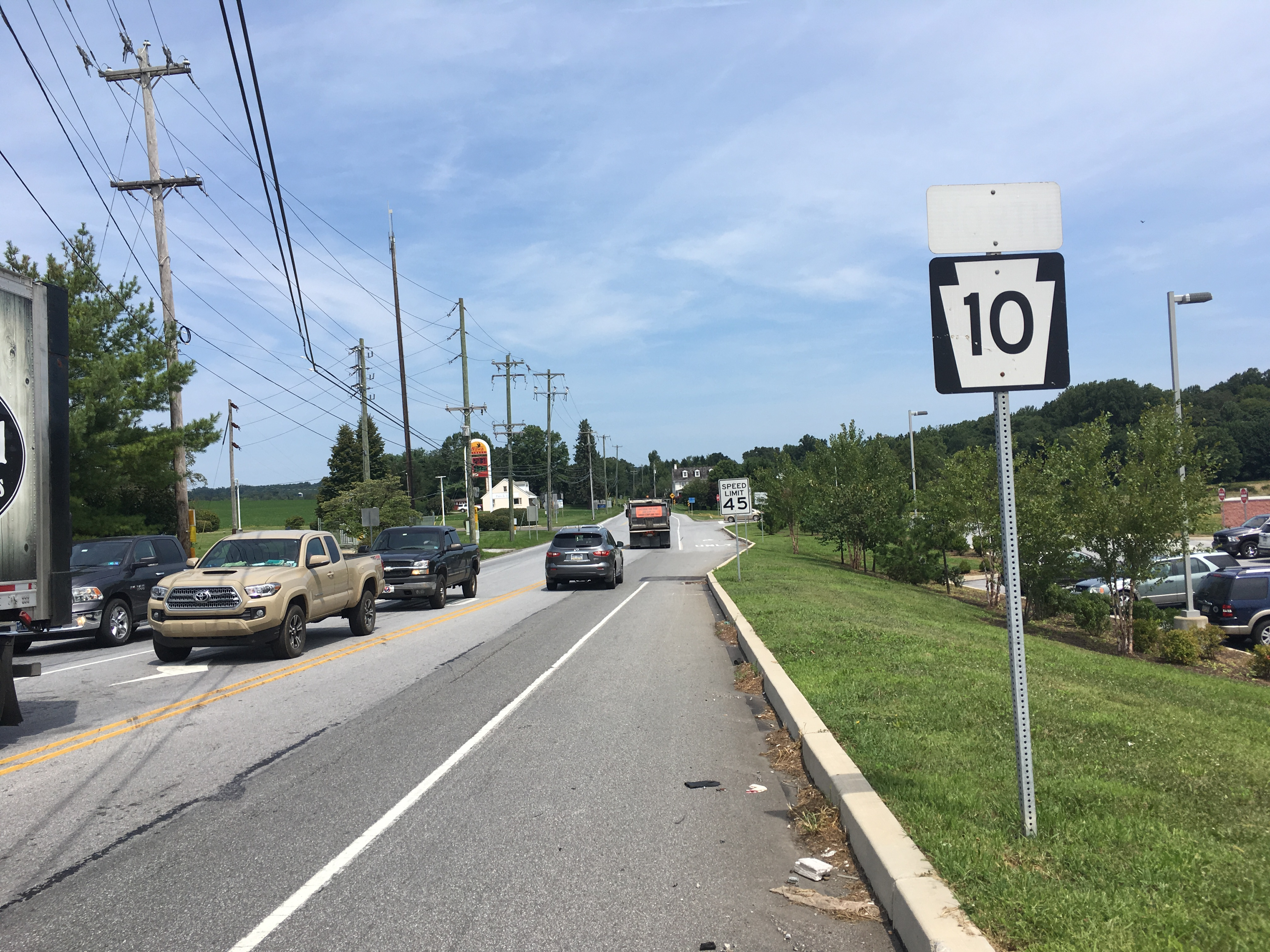 Northbound Pennsylvania Route 10 (Octorara Trail) past the intersection with U.S. Route 30 (Lincoln Highway) in Sadsbury Township, Pennsylvania